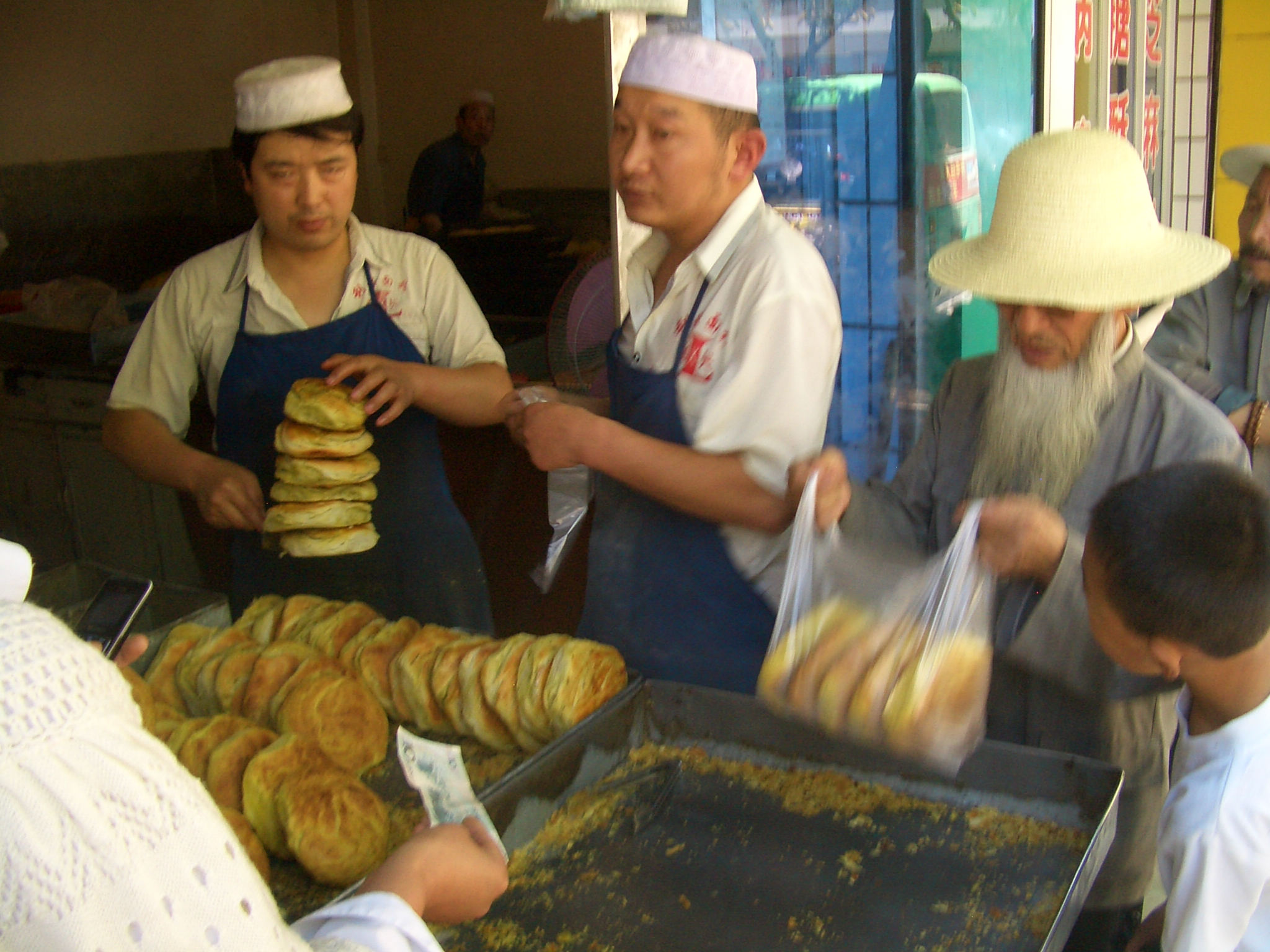 A Halal Bakery in Tuanjie St, the main street of Linxia City